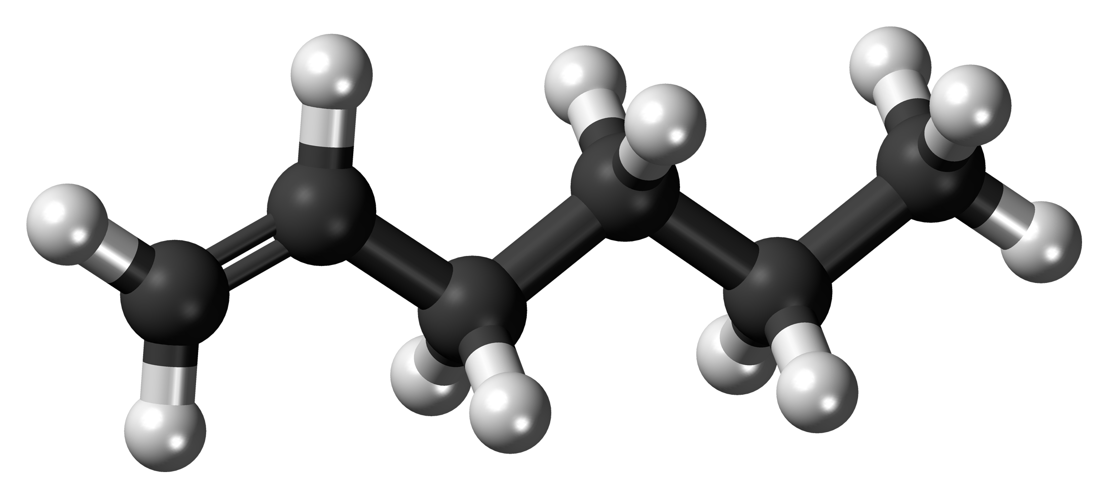 Ball-and-stick model of the 1-hexene molecule, also known as hex-1-ene, an alkene. Colour code: Carbon, C: black Hydrogen, H: white